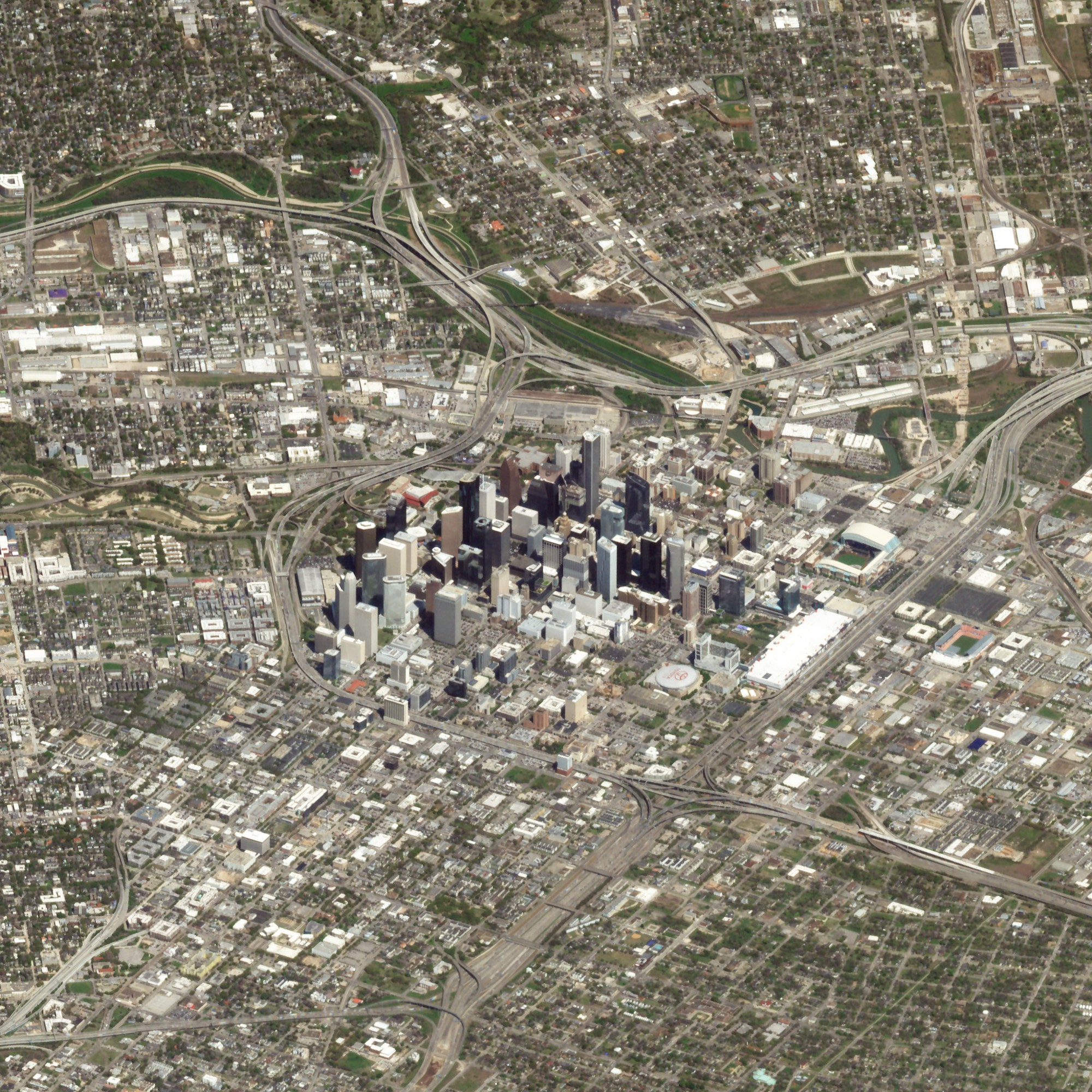 Houston, Texas, United States.